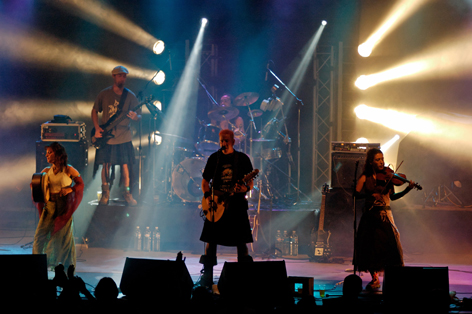 Celtik Halloween festival 2006